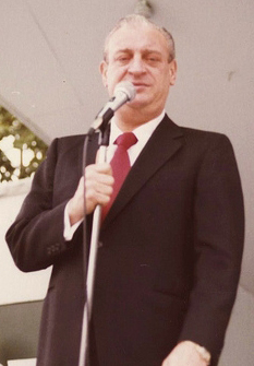 Rodney Dangerfield at the Shorehaven Beach Club in New York in 1978.